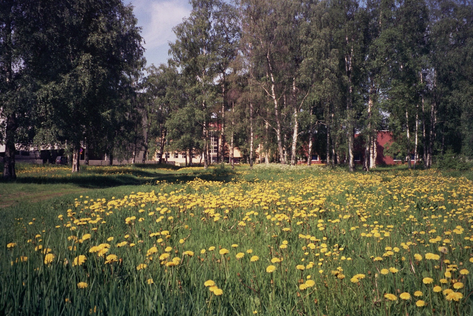 Dandelions in the Tuira district of the city of Oulu in Finland.